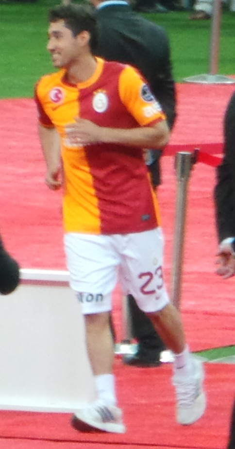 Furkan with GSK